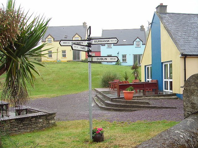 Cléire, New houses Good to see new housing being added to the island's stock. The signpost is fitting for such a geographical extremity.